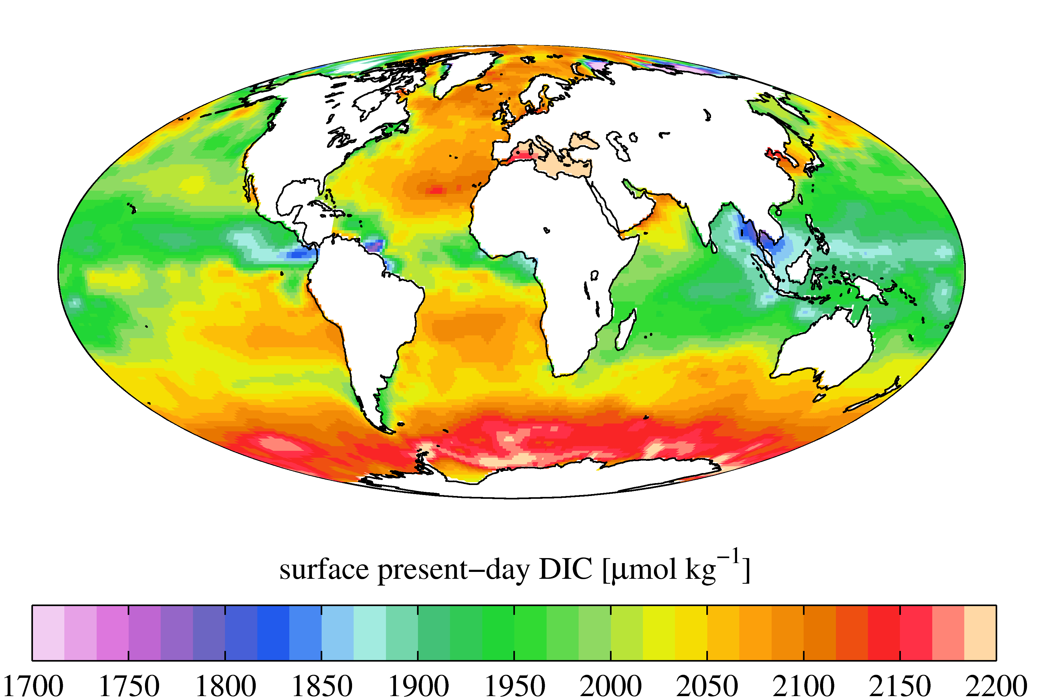 Annual mean sea surface dissolved inorganic carbon (DIC) for the present day (normalised to year 2002) from the Global Ocean Data Analysis Project v2 (GLODAPv2) climatology. Sources are given below. This field was derived from present day measurements of DIC with the signal of anthropogenic DIC removed using a mathematical technique. It is plotted here using a Mollweide projection (using MATLAB v2013a). Note that the GLODAPv2 climatology is missing data in certain oceanic provinces including the Arctic Ocean, the Caribbean Sea and certain inland seas. Lauvset, S. K., Key, R. M., Olsen, A., van Heuven, S., Velo, A., Lin, X., Schirnick, C., Kozyr, A., Tanhua, T., Hoppema, M., Jutterström, S., Steinfeldt, R., Jeansson, E., Ishii, M., Perez, F. F., Suzuki, T., and Watelet, S.: A new global interior ocean mapped climatology: the 1° × 1° GLODAP version 2, Earth Syst. Sci. Data, 8, 325-340, 2016 Key, R.M., A. Olsen, S. van Heuven, S. K. Lauvset, A. Velo, X. Lin, C. Schirnick, A. Kozyr, T. Tanhua, M. Hoppema, S. Jutterström, R. Steinfeldt, E. Jeansson, M. Ishi, F. F. Perez, and T. Suzuki. 2015. Global Ocean Data Analysis Project, Version 2 (GLODAPv2), ORNL/CDIAC-162, NDP-P093. Carbon Dioxide Information Analysis Center, Oak Ridge National Laboratory, US Department of Energy, Oak Ridge, Tennessee.